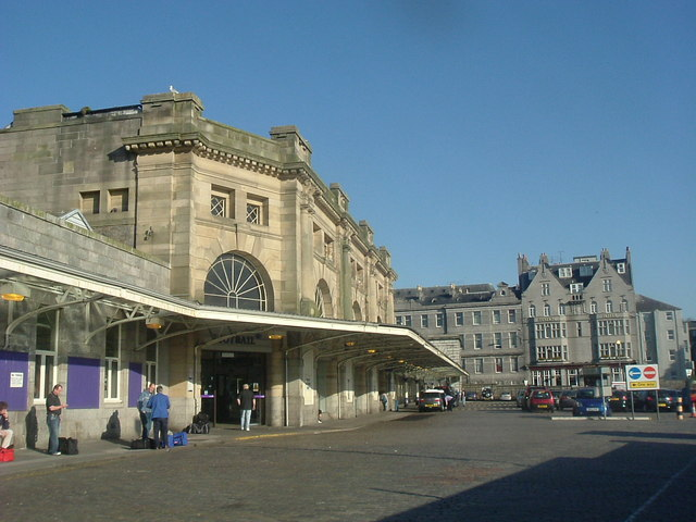 Aberdeen Railway Station. Forecourt and taxi rank, with Station Hotel in the rear right.